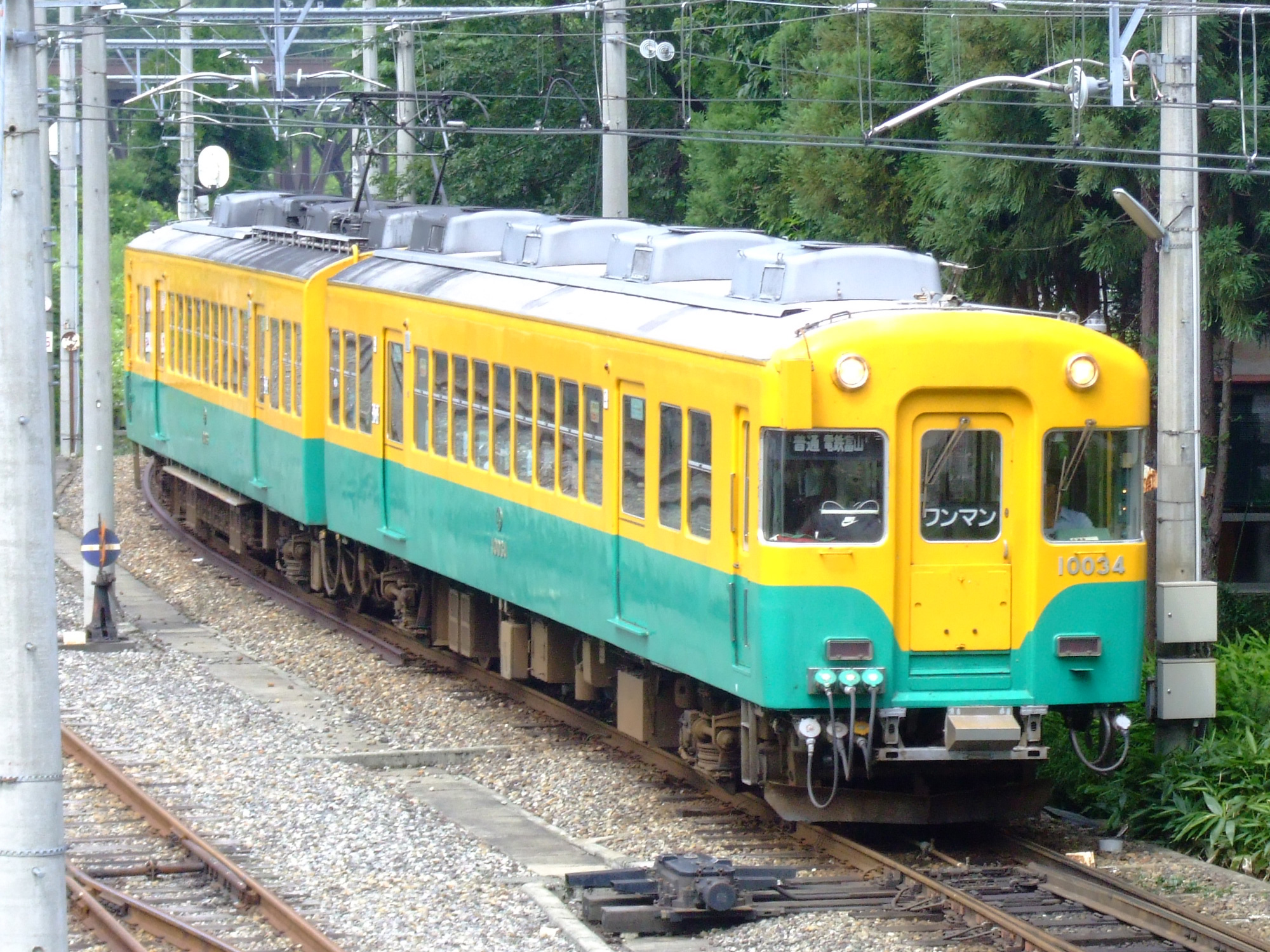 Toyama Chihou Railway type 10030